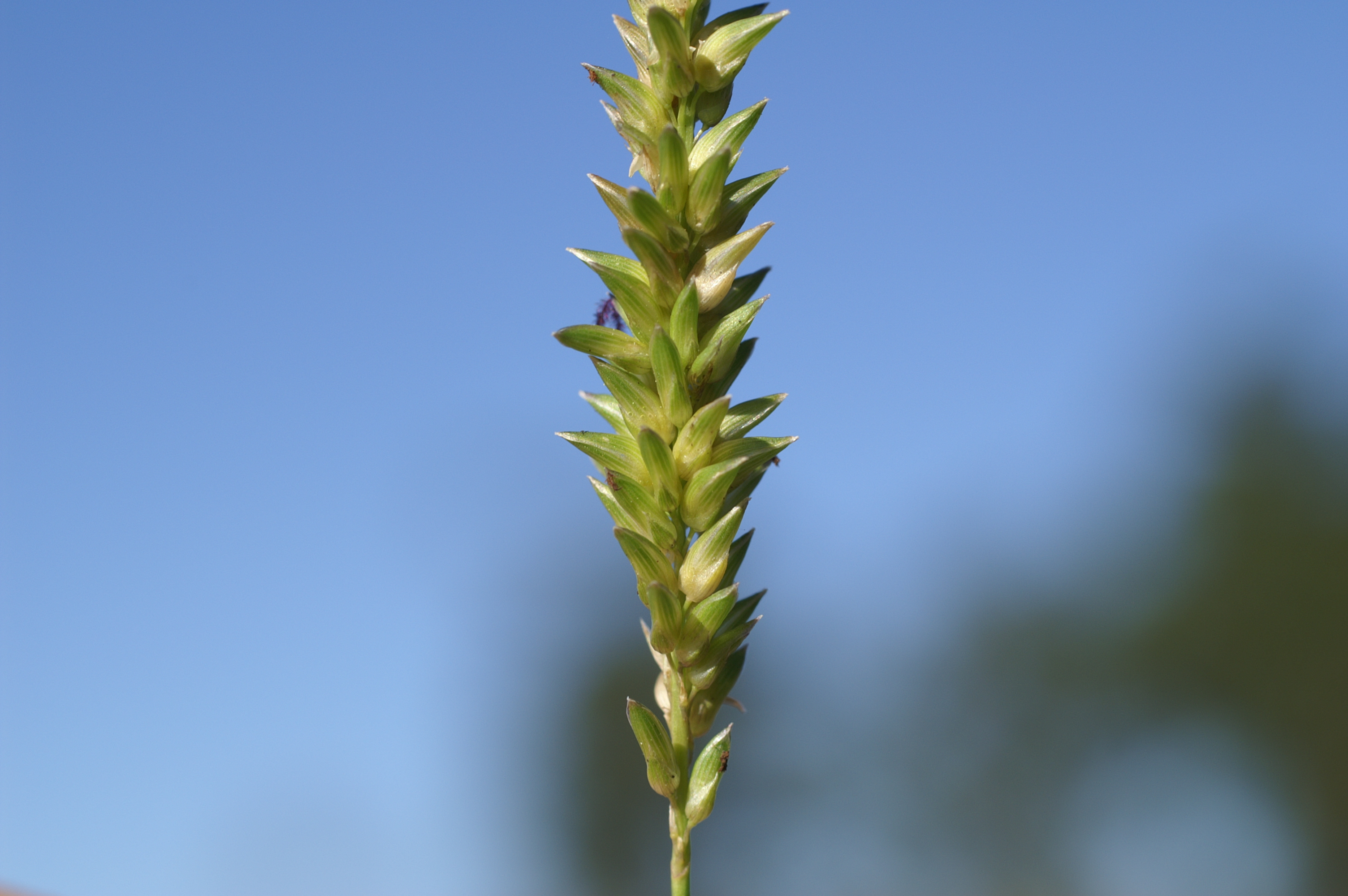 Sacciolepis indica